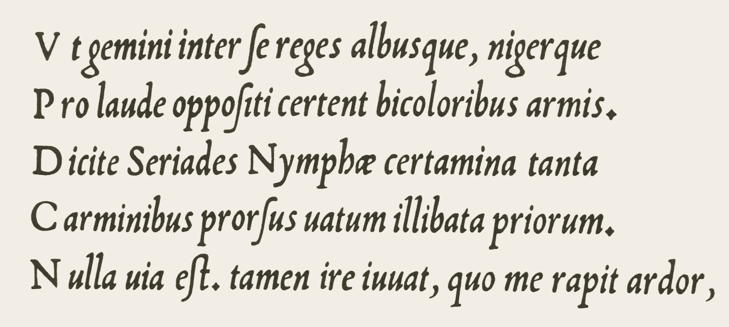 Sample of original italic typeface designed by Ludovico Arrighi ca 1527.